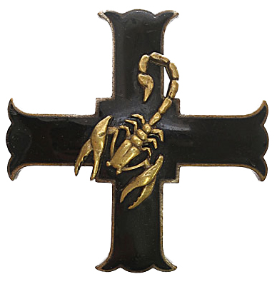 Breast badge of the Polish 4th Armoured " Skorpion" Regiment (polish: 4 Pułku Pancernego "Skorpion"). Badge designed by Ignacy Kowalczewski & L. Kuźniarz. Size: 42 mm x 42 mm. Two piece construction, enamelled. Made by Picchiani, Barlacci — Firenze, Italy. Badge officially instituted 10 May 1946.